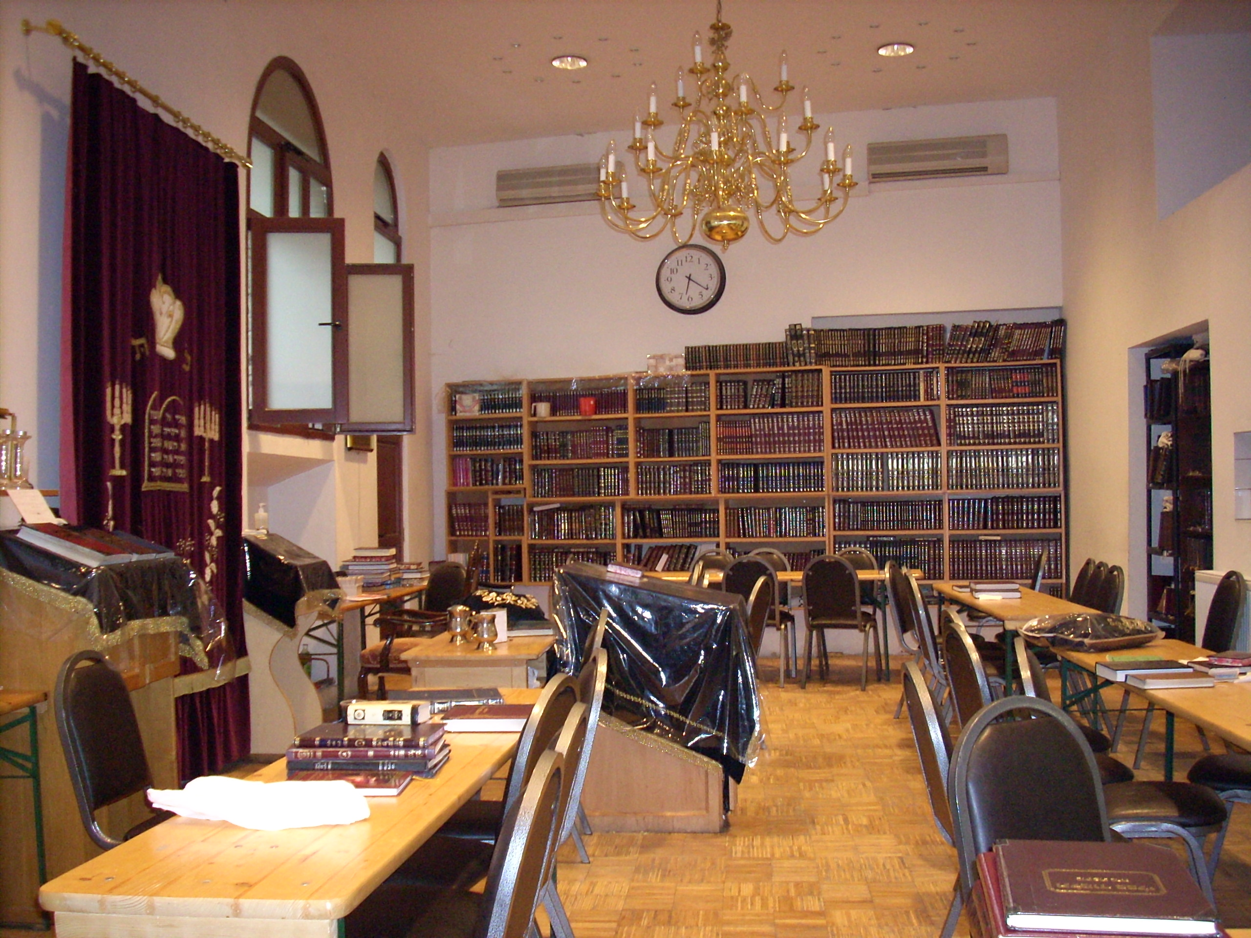 Praying room of today's Schiffschul in Vienna's 2nd district